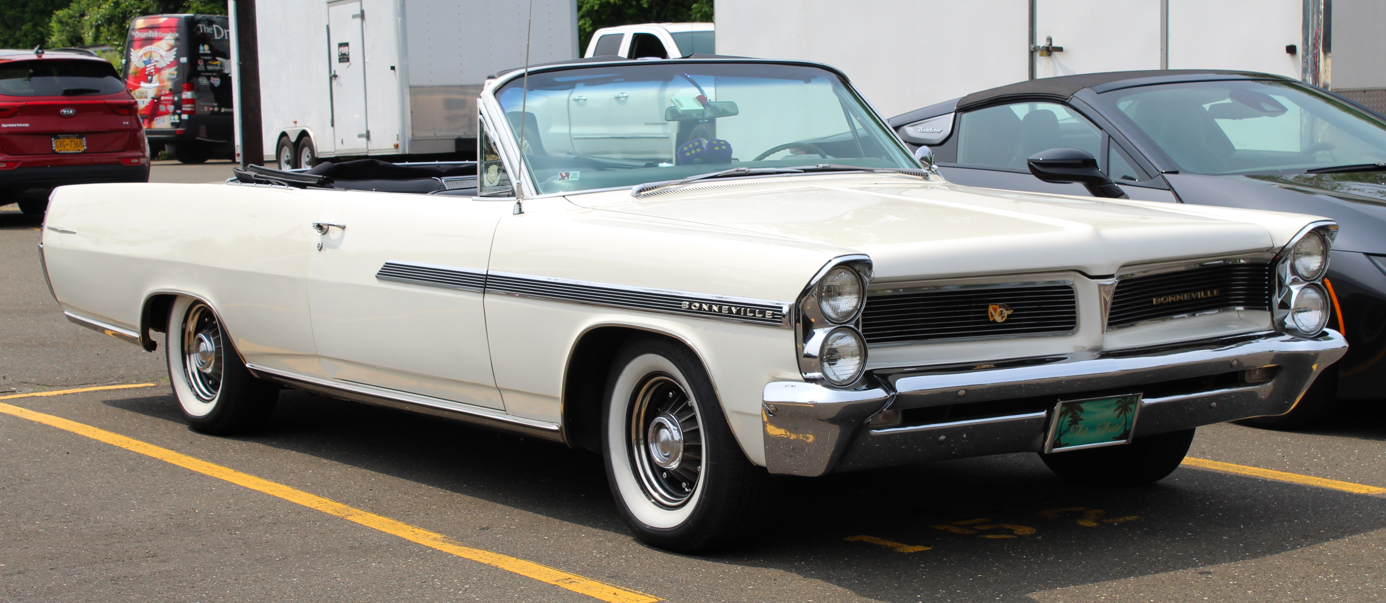 A 1963 Pontiac Bonneville Convertible photographed in Greenwich Concours d'Elégance Hagerty parking lot, Connecticut, USA